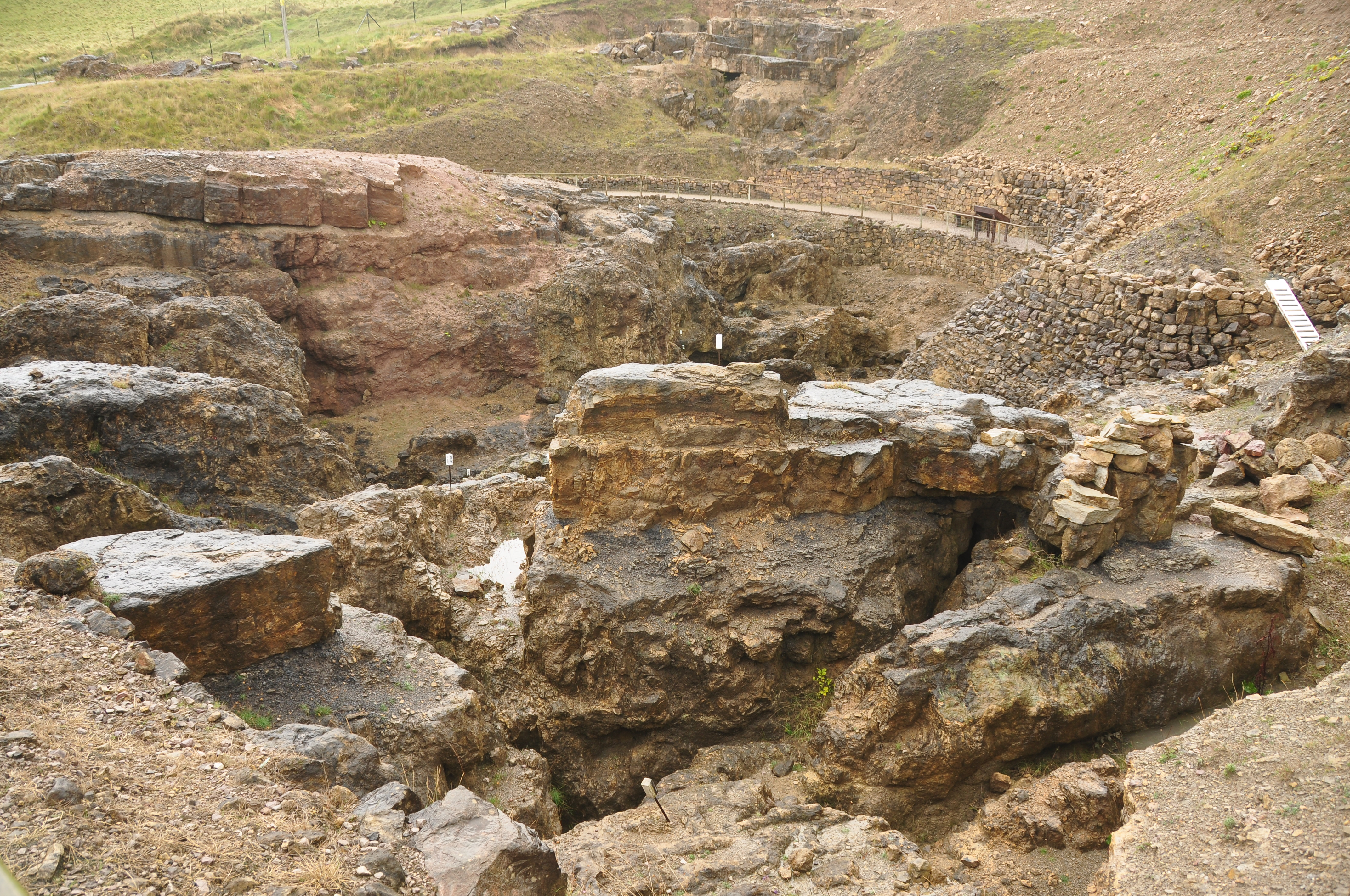 Great Orme Mine